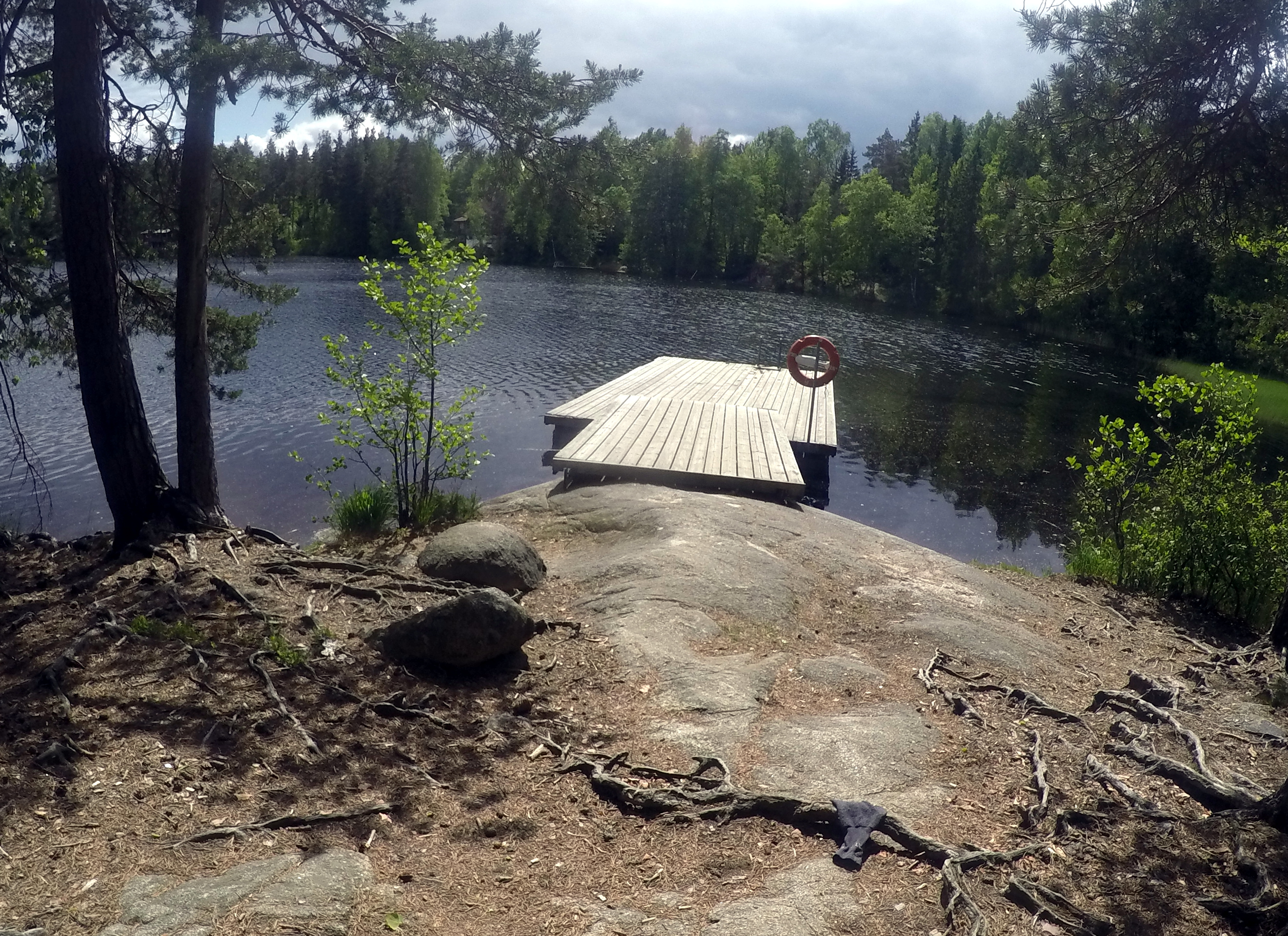 Sorvalampi is a lake in Espoo, Finland.